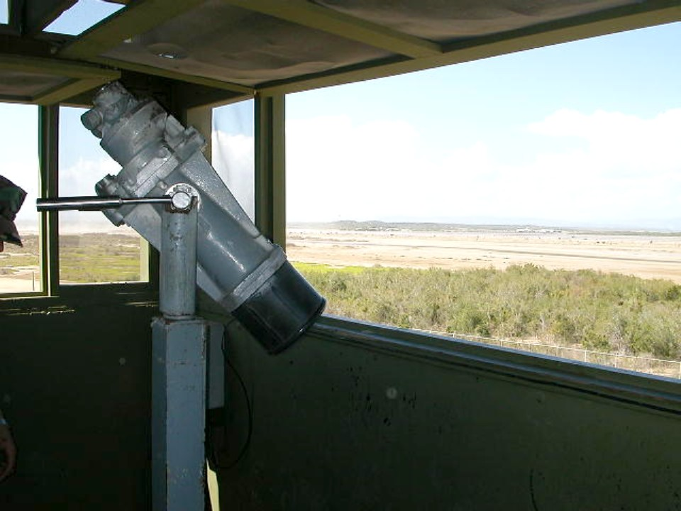 "Big Eyes" these are the binoculars I used to take the pictures, where the subject was a mile away. We have them on every MOP. GTMO BAY, CUBA.